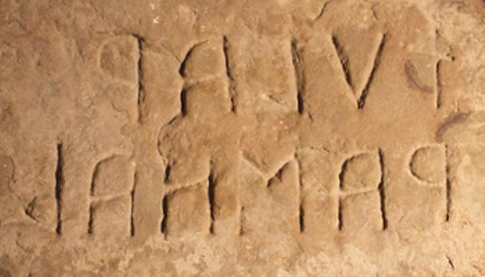 Boundary of the Etruscan States